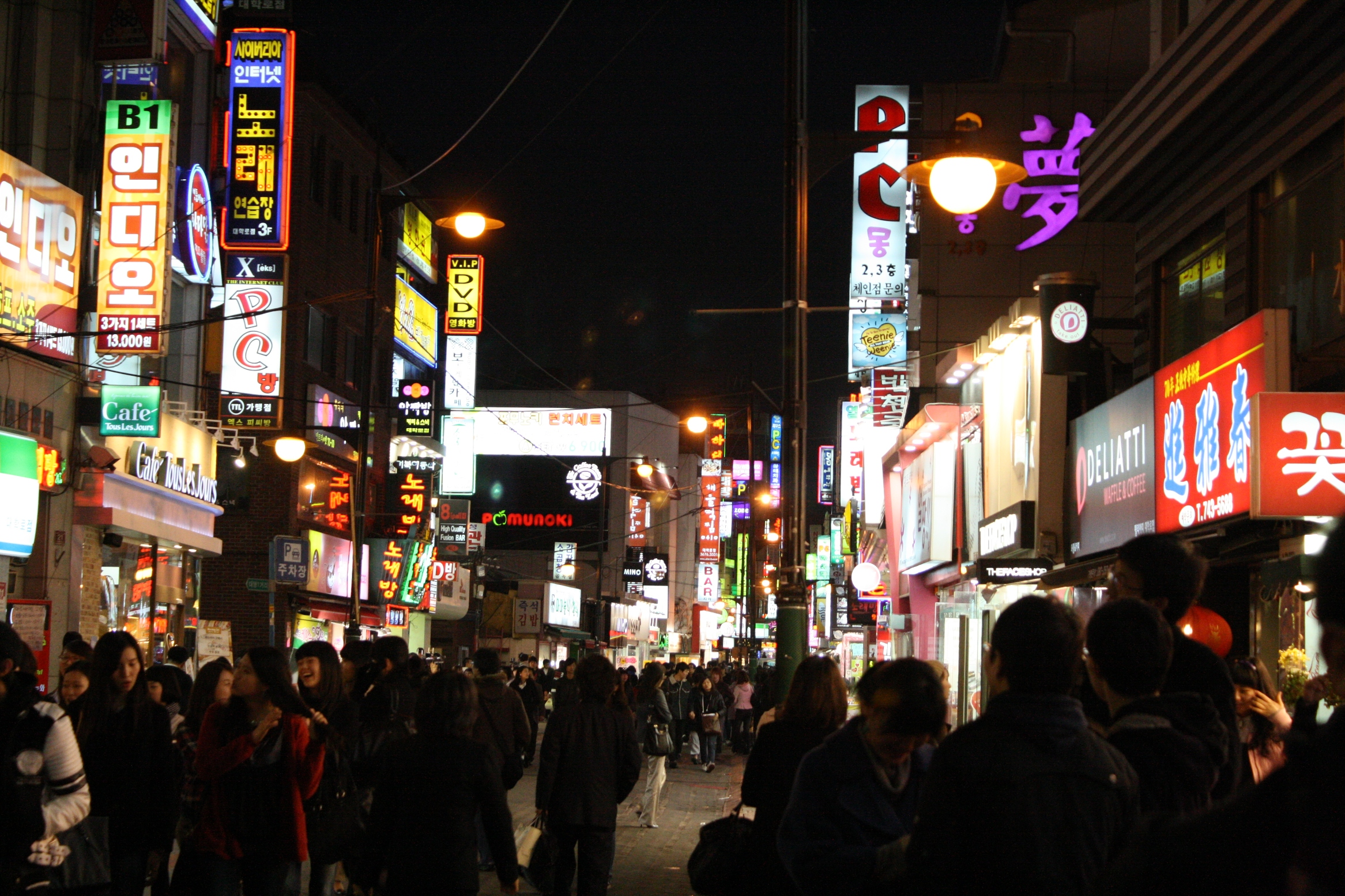 Photograph taken at night near exit 4 of Hyehwa station in Seoul. Shows a busy night in the Daehangno area of Seoul.